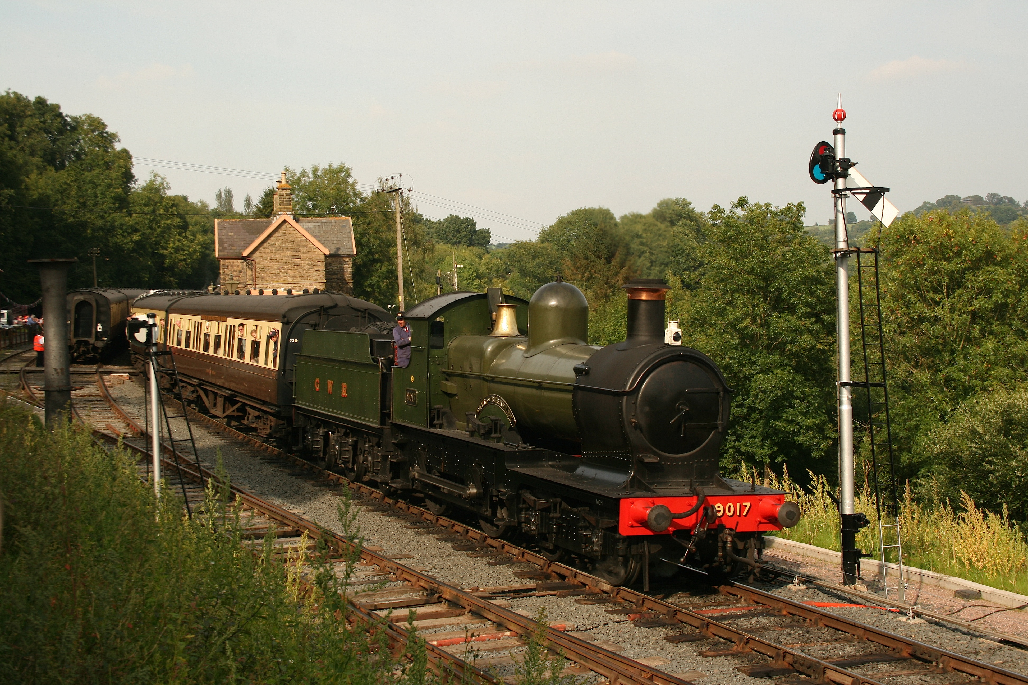 The 'Earl of Berkeley' leaves Highley for Kidderminster, 2008